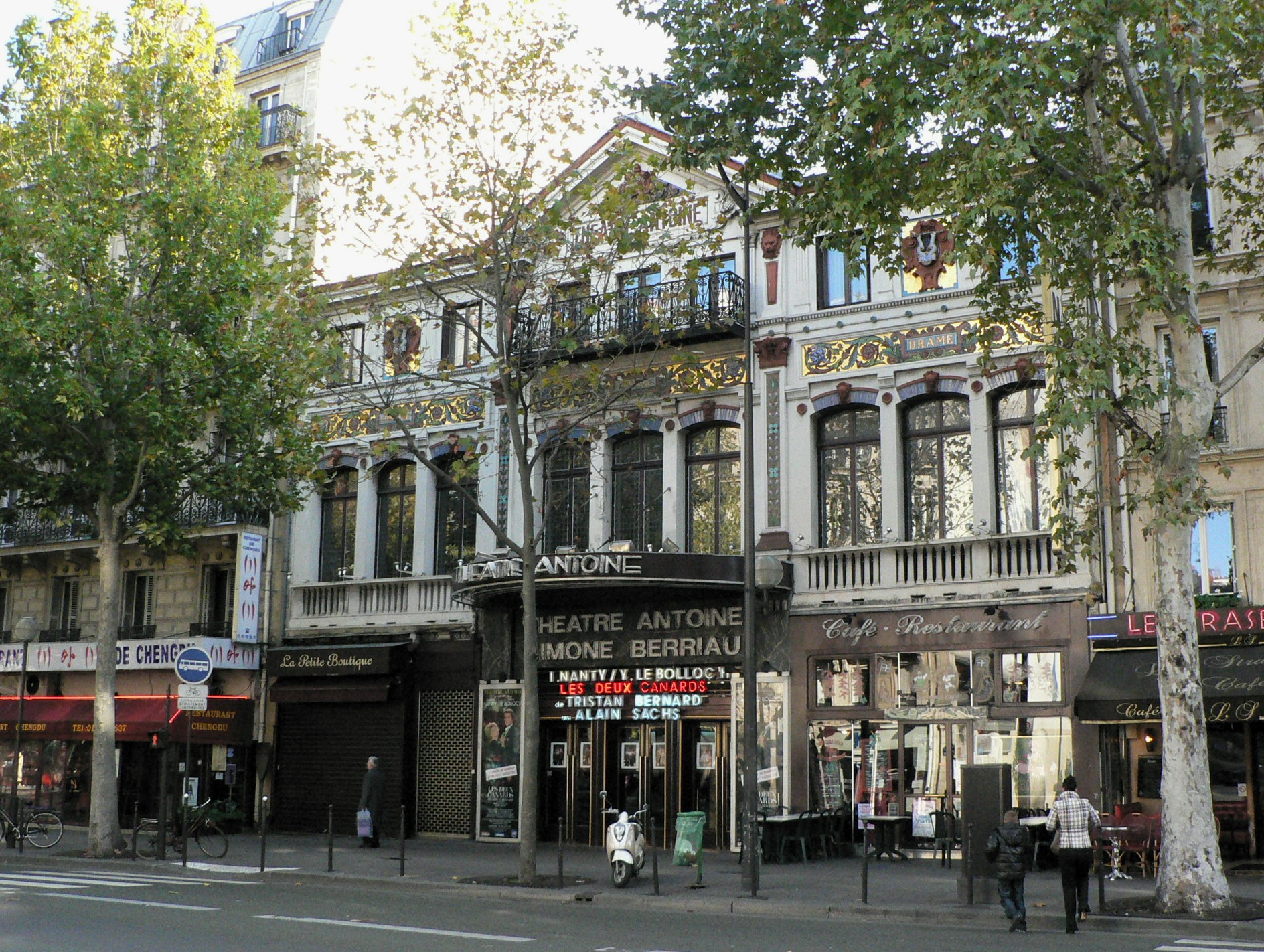 Théâtre Antoine in Paris in autumn 2008.